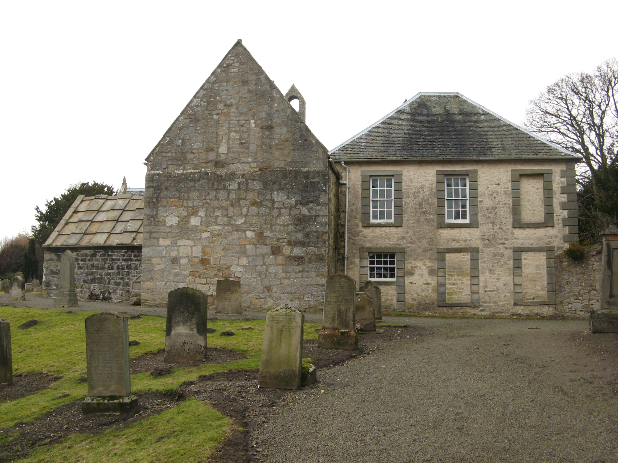 East end of Abercorn Kirk, West Lothian Scotland. The building on the right is the Retiring Room built for the Earl of Hopetoun by Sir William Bruce in 1708.